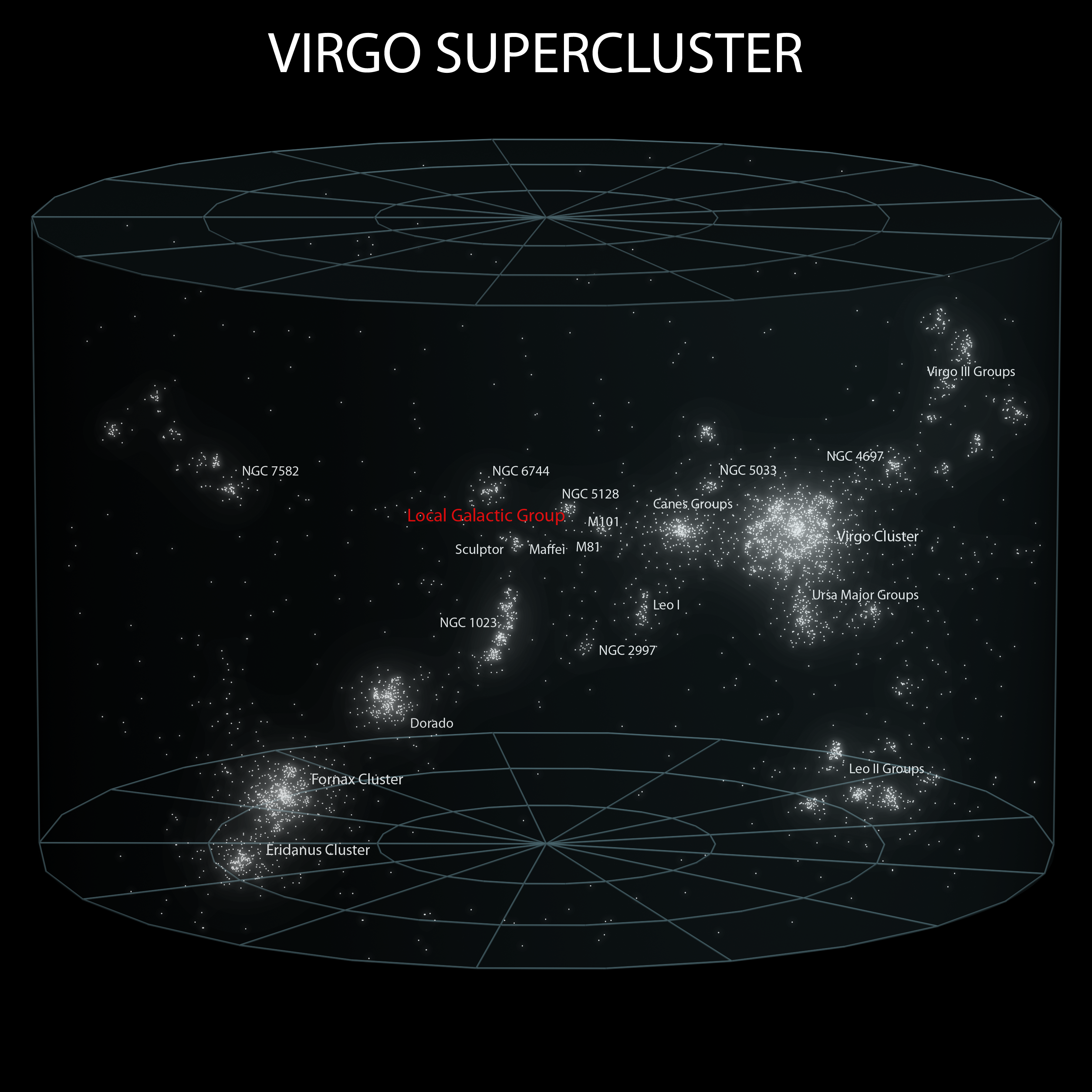 The full compilation of the image is located here: File:Earth's_Location_in_the_Universe_(JPEG).jpg NOTE: Please contact the author if requiring alterations or changes to the image for different language wiki's or for publication questions and concerns. I do ask that when redistributing my work, it be credited with the my name: Andrew Z. Colvin as I am the original author. I appreciate the cooperation and consideration of the Creative Commons Attribution-ShareAlike 3.0 Unported License and the GNU Free Documentation License agreements.